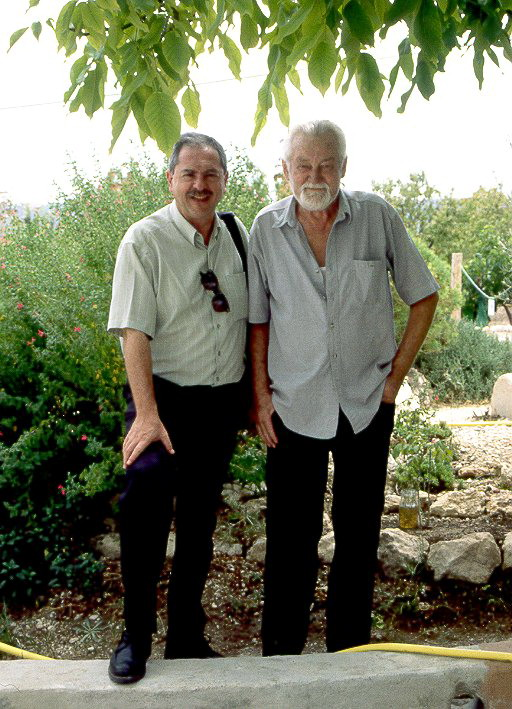 Botanist Gunther W.H. Kunkel (right) at his home in Velez-Rubio and the ornamental plant expert Jose Manuel Sanchez Lorenzo-Cáceres